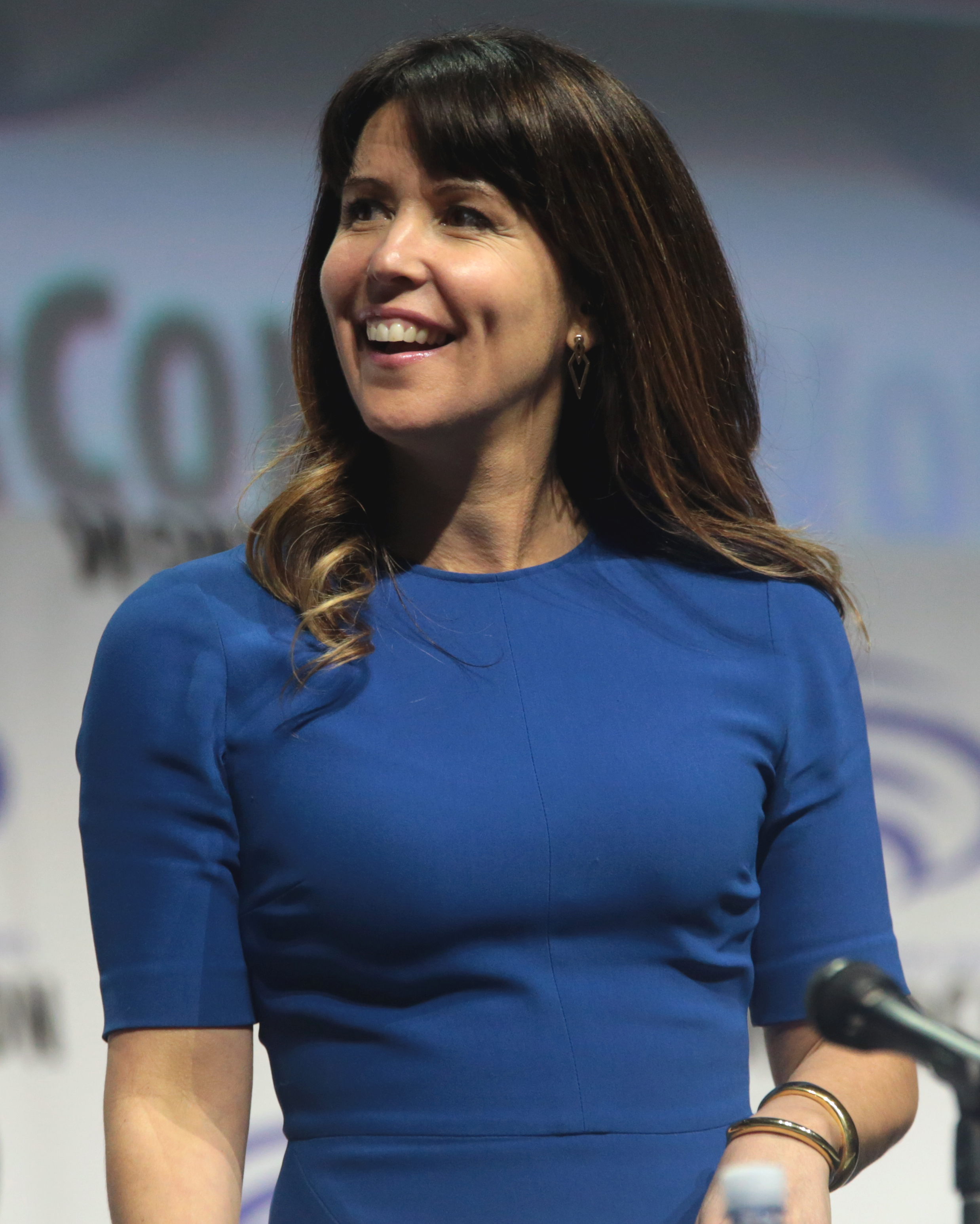 Patty Jenkins speaking at the 2017 WonderCon in Anaheim, California.